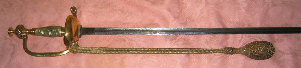 Late 19th/early 20th Century German cavalry officer's stichdegen (undress sword) with its sword knot.